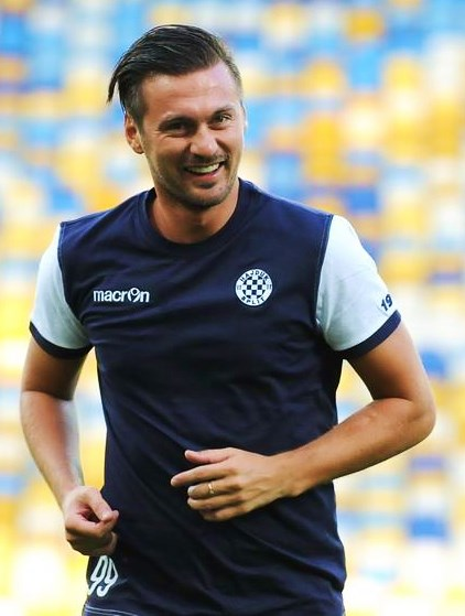 Artem Milevskyy